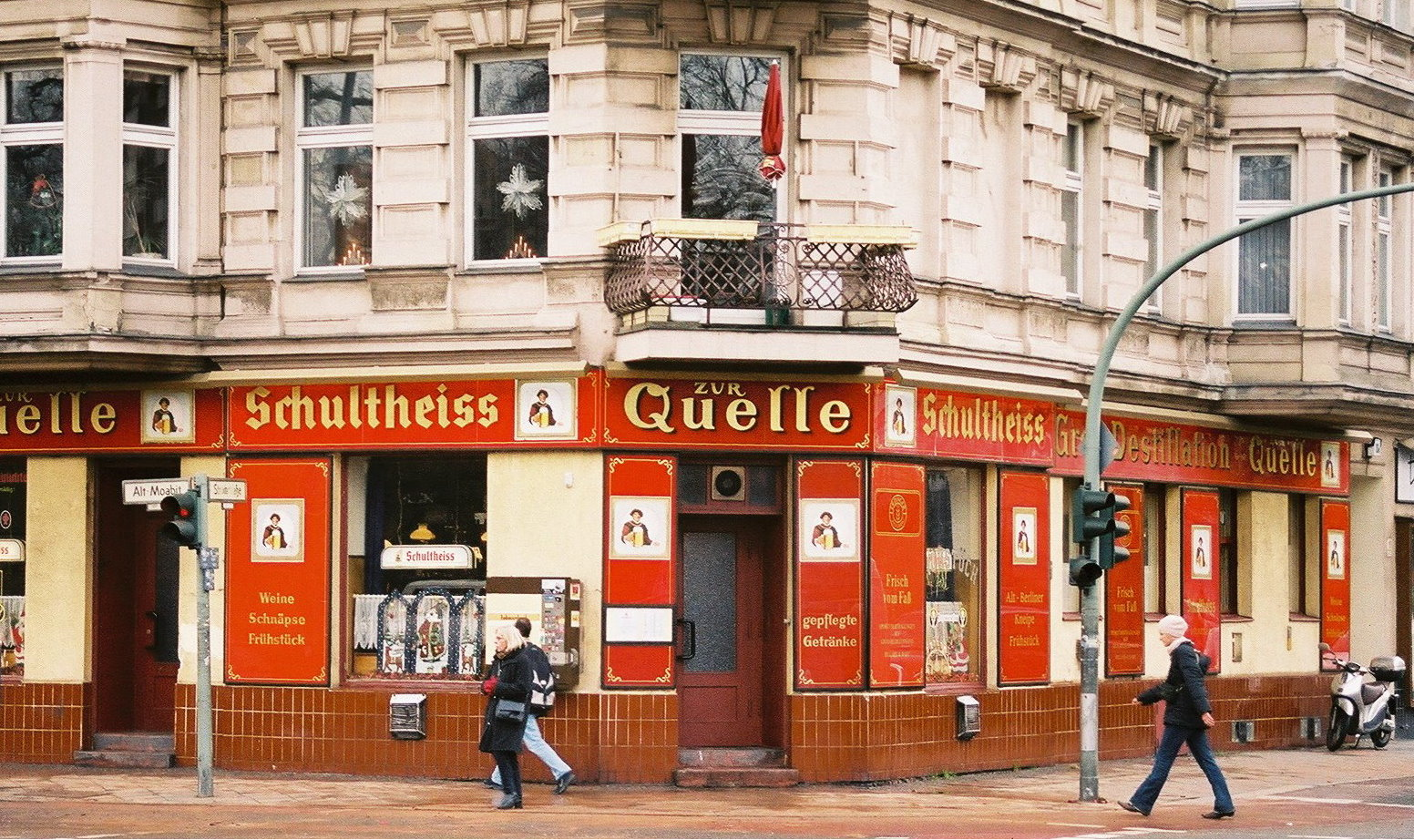 typical oldfashioned Berlin pub on a corner (Berlin, quarter Alt-Moabit, corner "Alt-Moabit"/"Stromstraße")